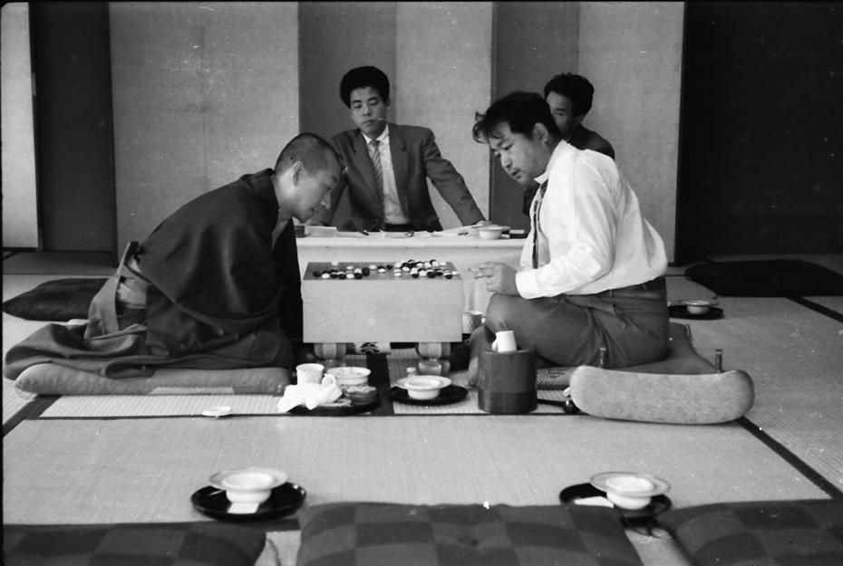 Fujisawa Hosai (9p) vs Go Seigen (9p). Special 2-games match sponsored by Mainichi Shinbun. White (Fujisawa Hosai) wins by resignation.